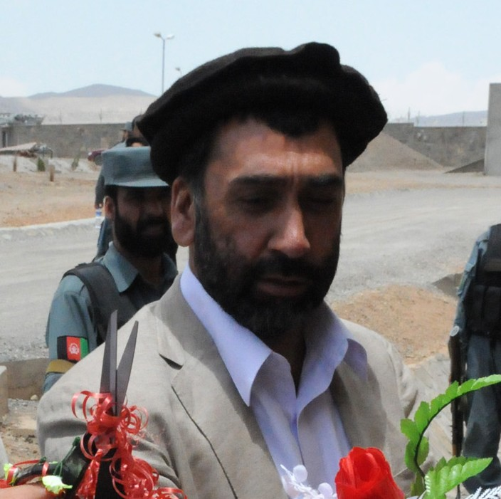 100624-A-9124K-004 Maj. Gen. Abdul Fatah (Ferough), Gardez District Police Chief (left) and Juma Khan Hamdard, Paktia Provincial Governor (right) cut the ribbon commemorating the opening of the new police training facility in Gardez, Afghanistan on June 24, 2010. (Photo by Sgt. Tony Knouf, 304 PAD)